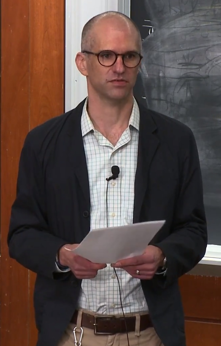 Eric Lander, president and founding director of the Broad Institute of MIT and Harvard and a principal leader of the Human Genome Project, and Maria Zuber, MIT Vice President for Research and the E. A. Griswold Professor of Geophysics, joined Communications Forum director Seth Mnookin for a wide-ranging discussion on the ethical issues entangled in innovation and the real, and sometimes devastating, effects of invention without culpability.